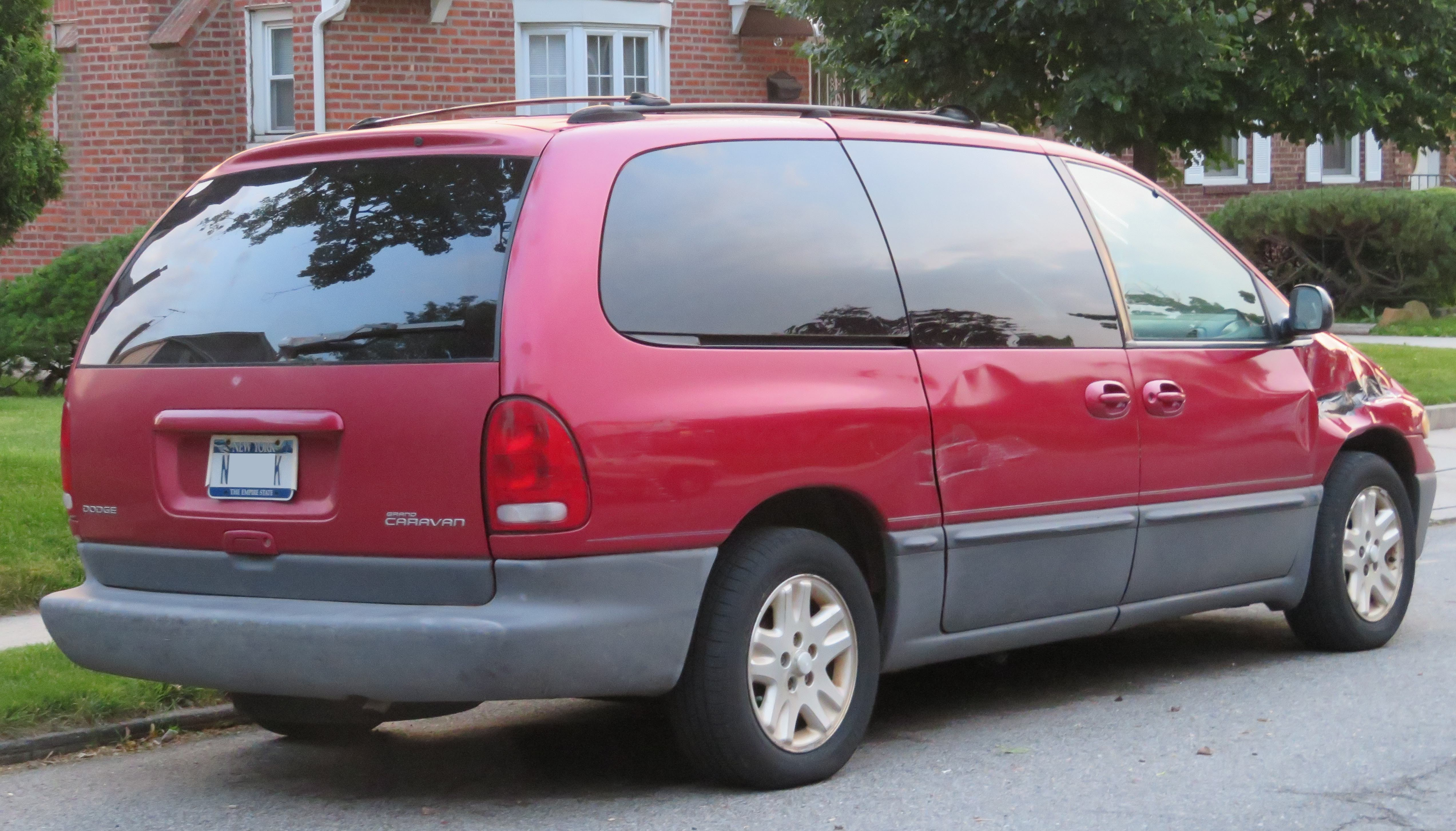 Photographed in Queens, New York